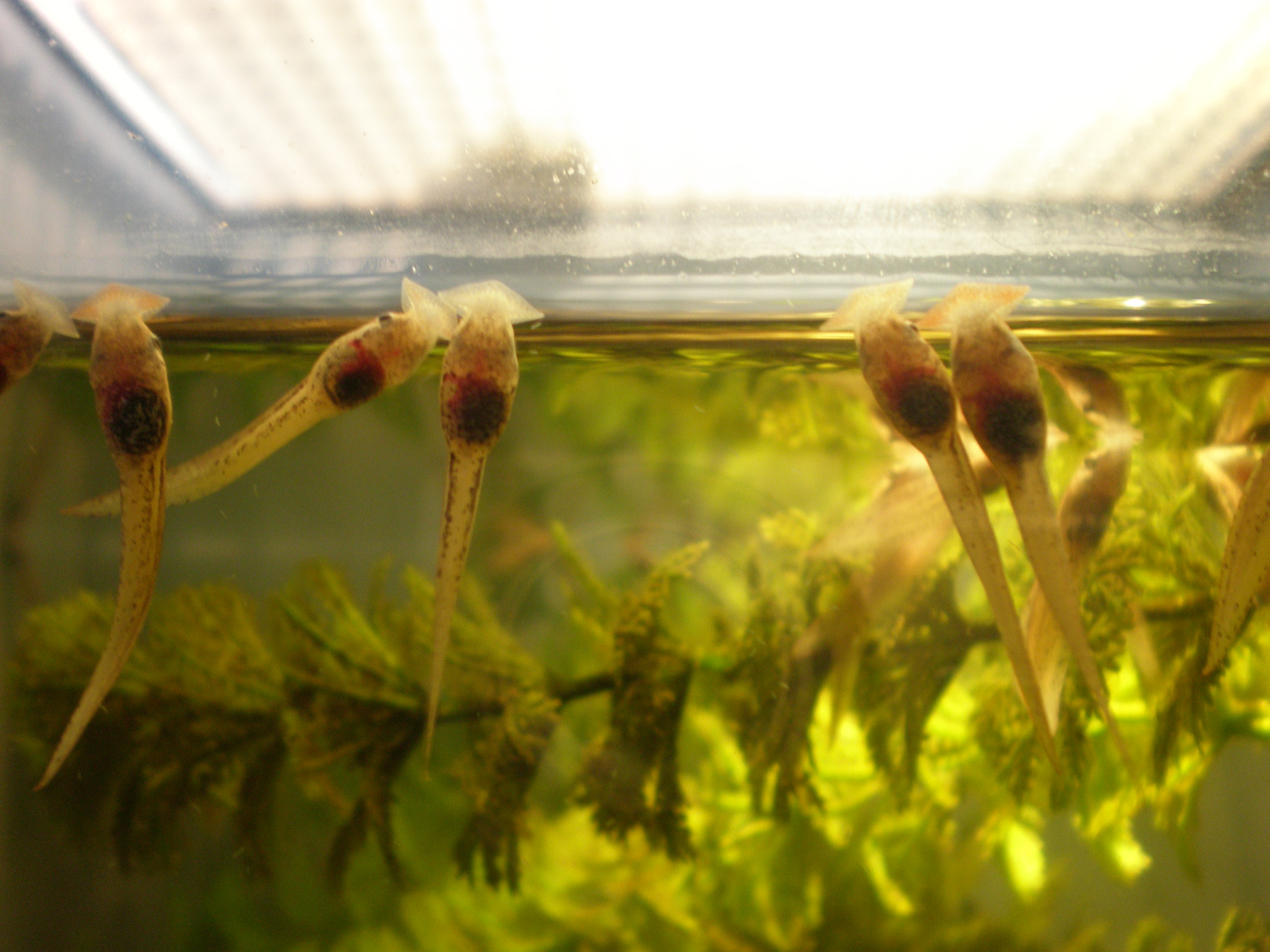 Long-nosed Horned Frog tadpoles (Megophrys nasuta) at the Steinhart Aquarium of the California Academy of Sciences in San Francisco.